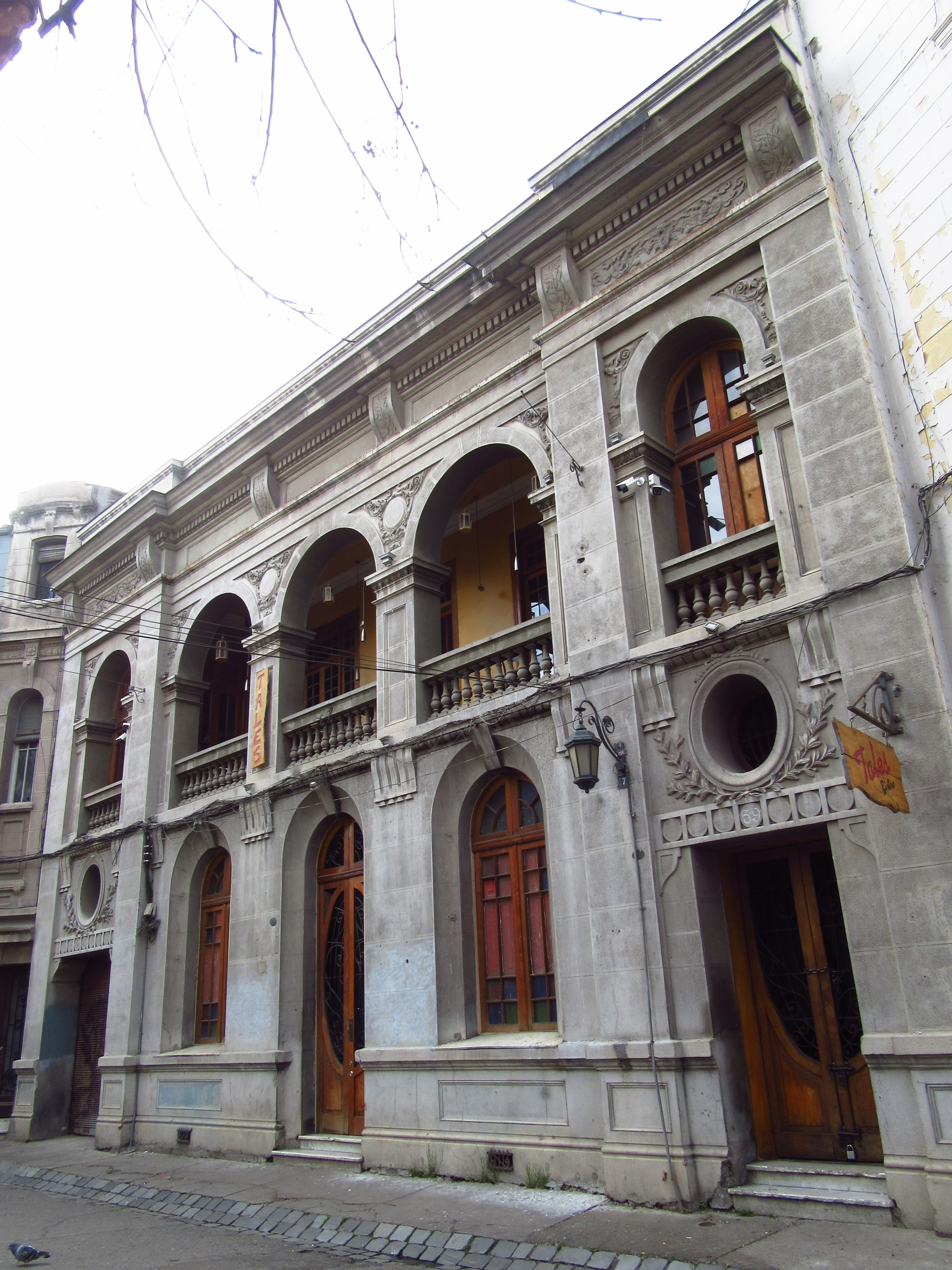 2017 in Santiago de Chile